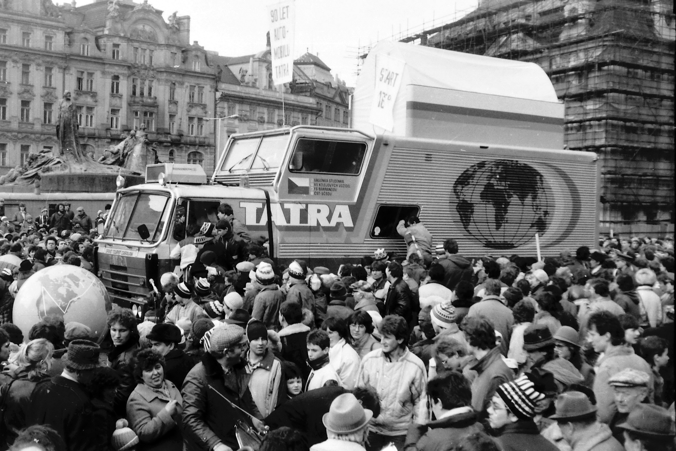 Tatra 815 GTC (Grand Tourist Caravan) from the expedition Tatra kolem světa (Tatra around the world)